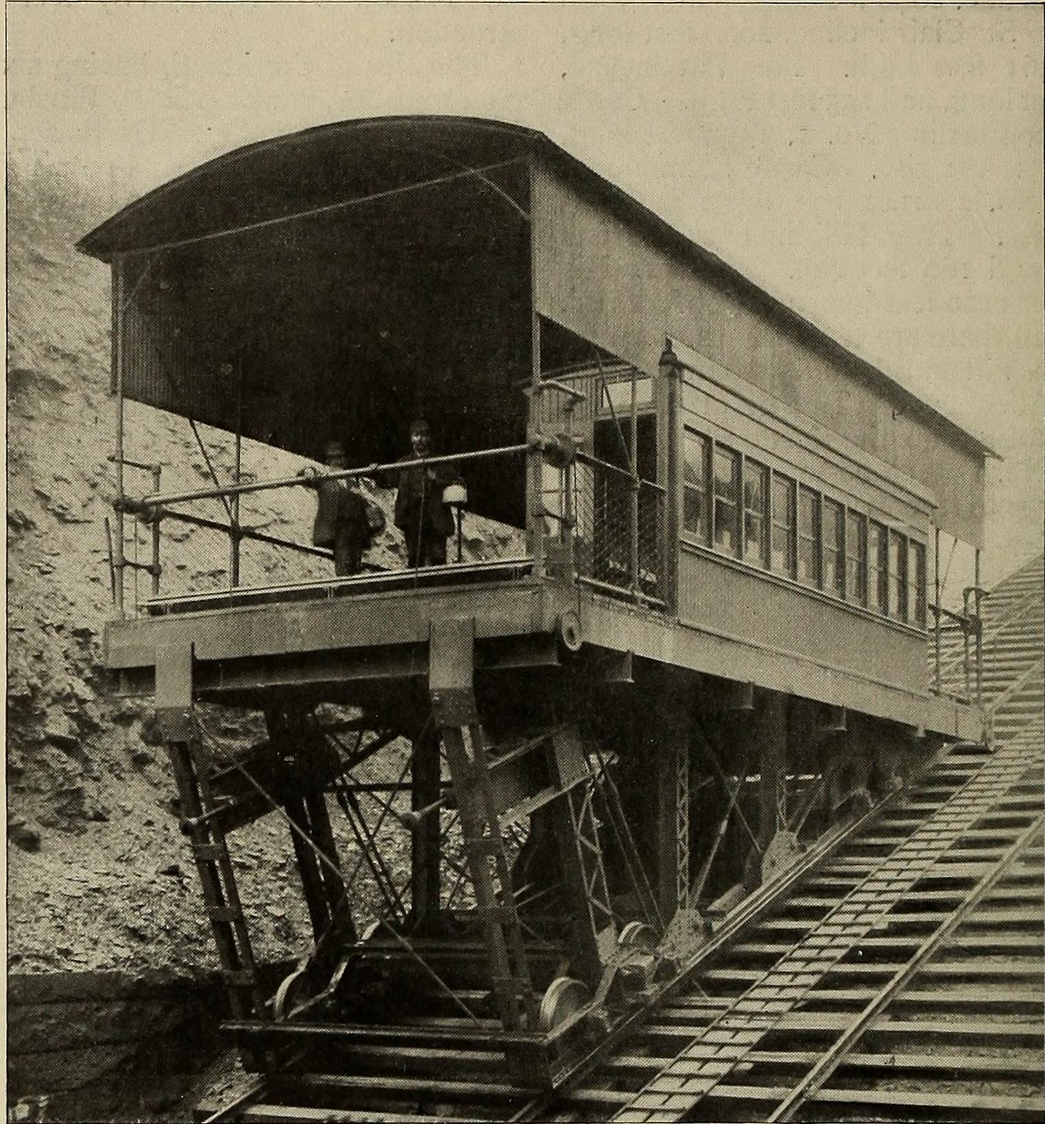 End view of a car on Castle Shannon Plane No. 1.